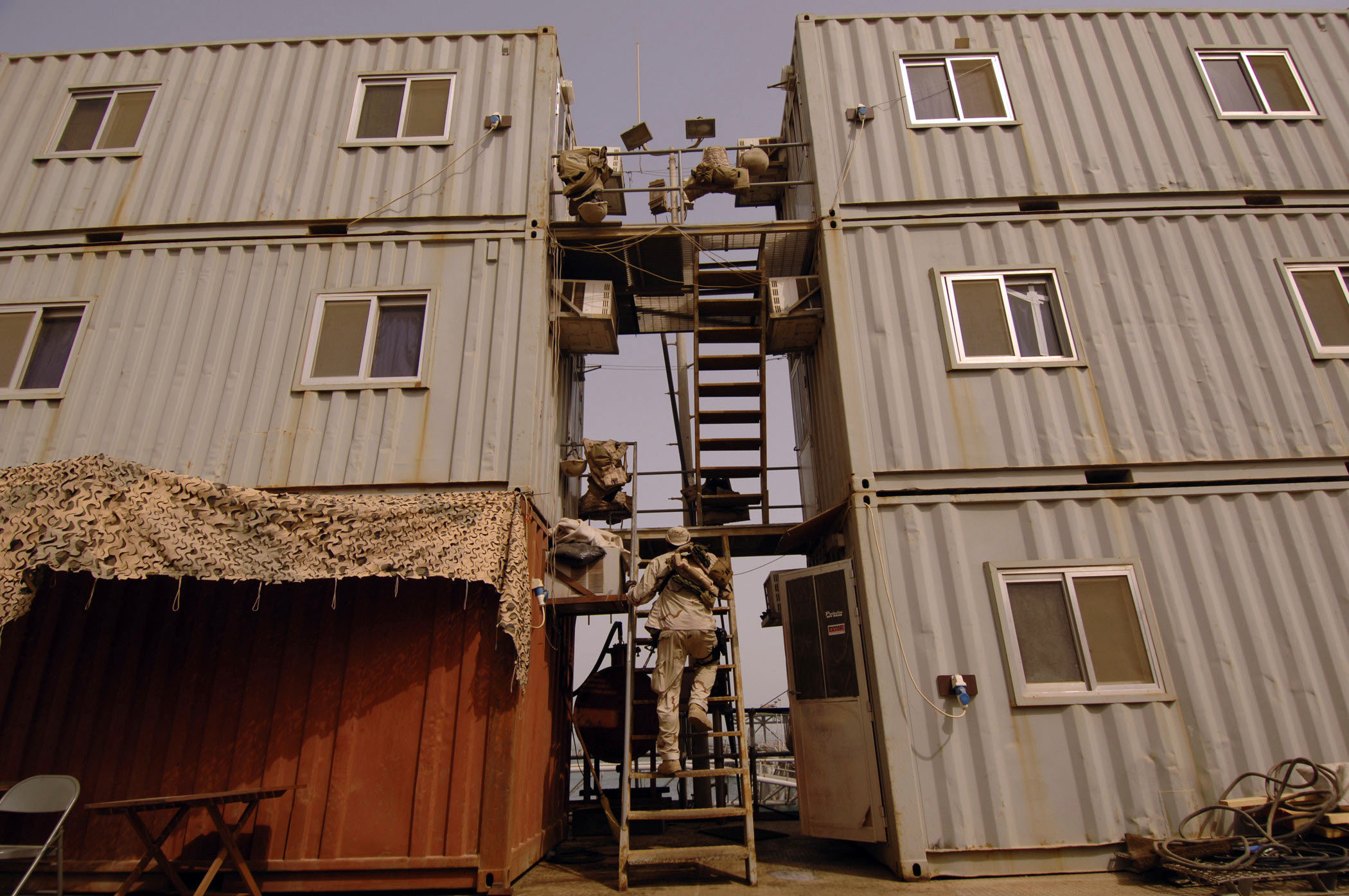 North Persian Gulf (June 12, 2005) - Master-at-Arms 2nd class Adam Ortega, assigned to Mobile Security Detachment Two Five (MSD-25), makes his way to his sleeping quarters after completing a long watch. MSD-25 is deployed to the Iraqi oil terminals Al Basrah and Khawr Al Maya in the coastal waters of Iraq supporting Maritime Security Operations (MSO). MSO sets the condition for security and stability in the maritime environment complementing the counter-terrorism and security efforts of regional nations. MSO also denies international terrorists use of the maritime environment as a venue for attack or to transport personnel, weapons, or other material. U.S. Navy photo by Photographer's Mate 1st Class Aaron Ansarov (RELEASED)